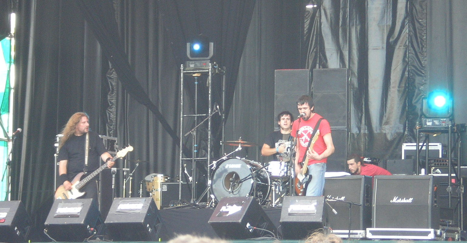 Berri Txarrak, at the Azkena Rock Festival in Vitoria-Gasteiz